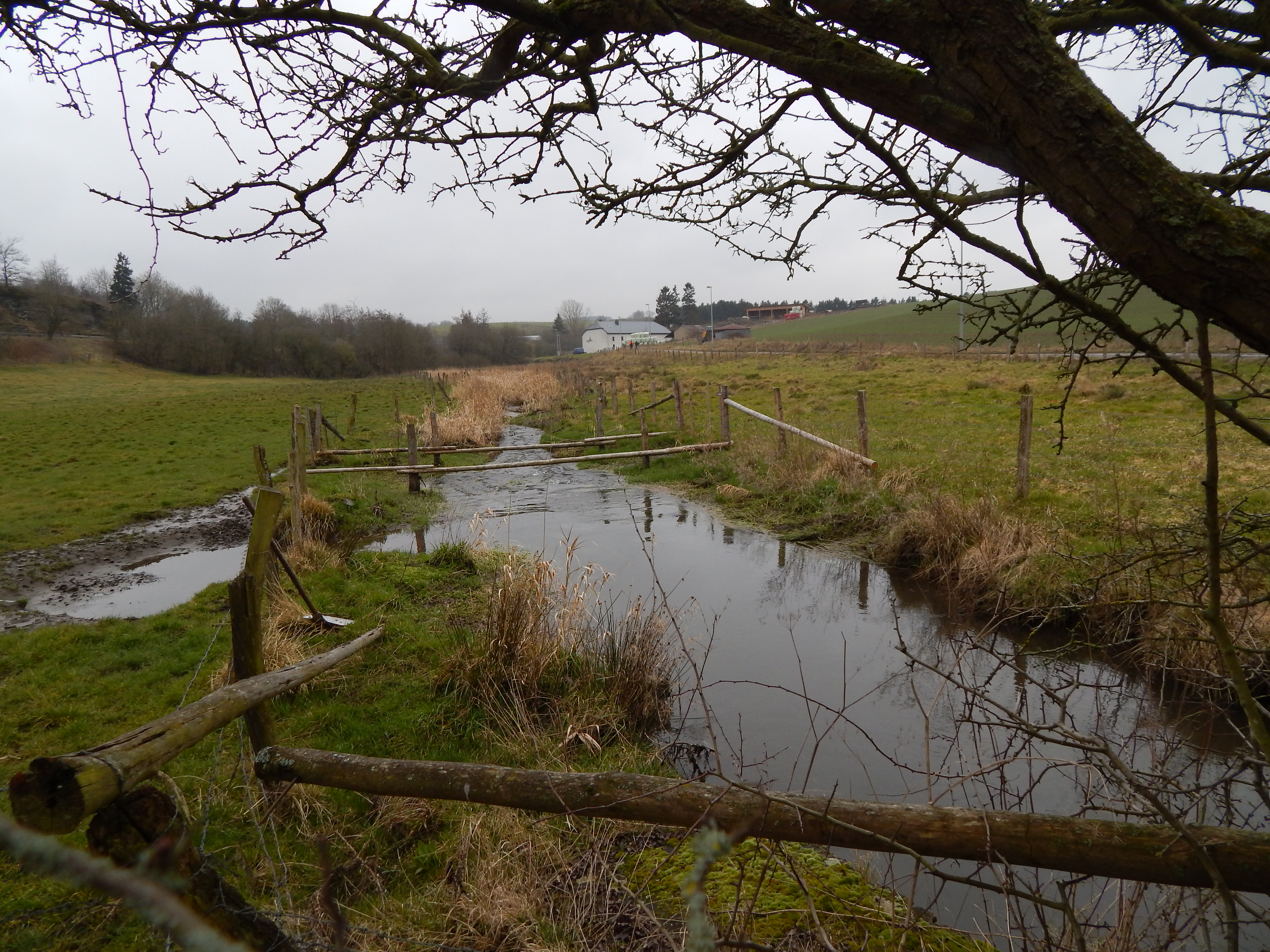 Éimeschbaach, a lieu-dit around the so-named stream in Luxembourg with "Haff Éimeschbaach"